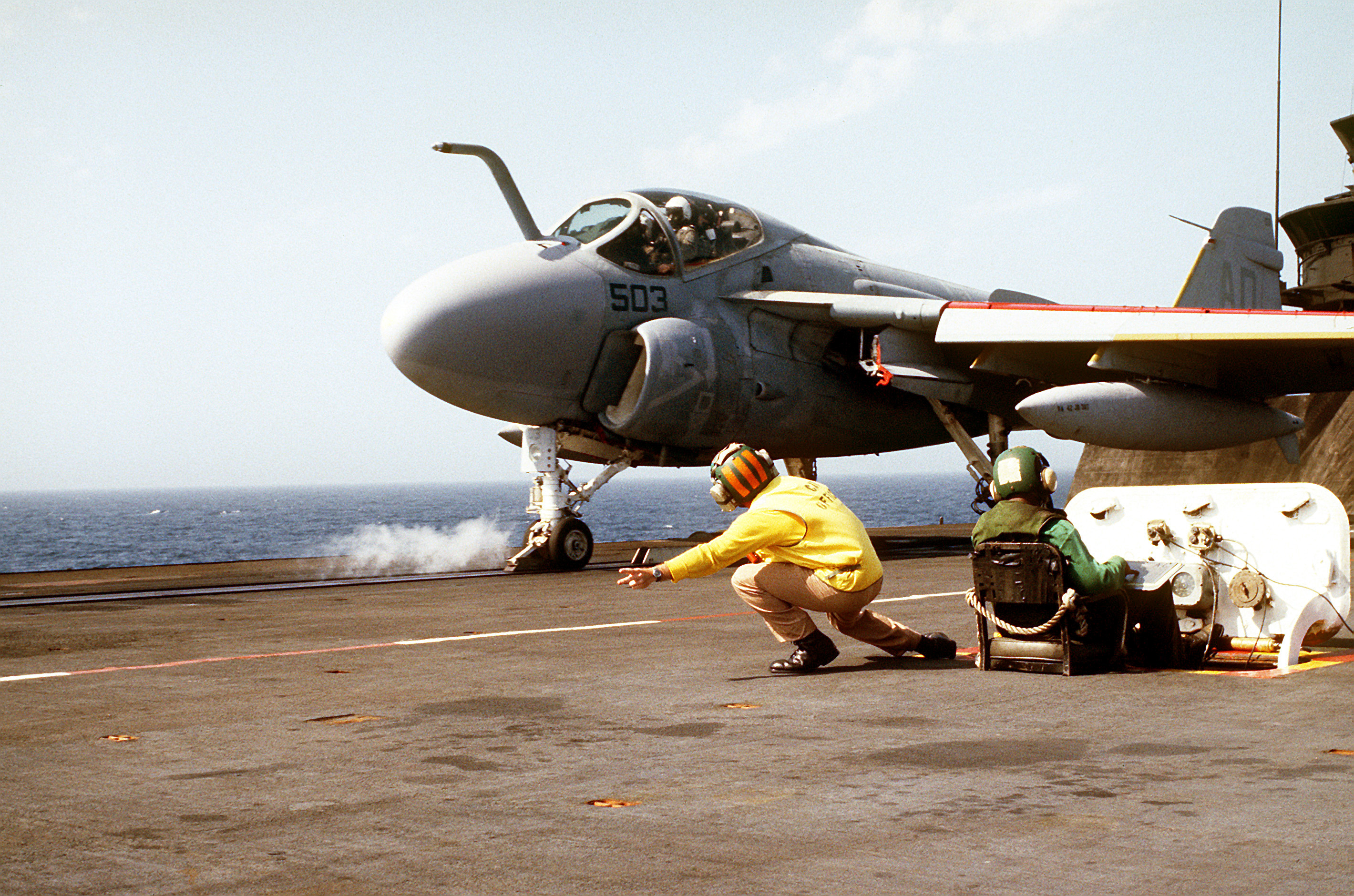 A U.S. Navy catapult officer signals to launch a Grumman A-6E Intruder aircraft of Attack Squadron VA-42 from the training aircraft carrier USS Lexington (AVT-16), in 1984.